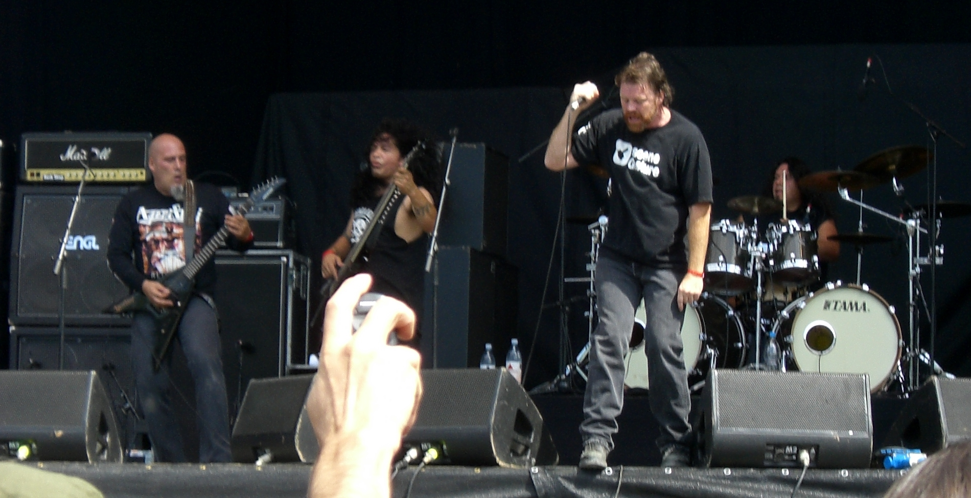 Agent Steel playing on the Bang Your Head Open Air Festival in Balingen Germany in June 2008